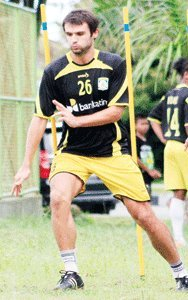 Tomislav Labudović Persiba Balikpapan 26